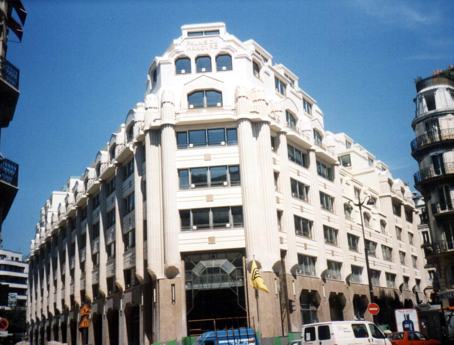 Palais Berlitz, Paris, luxury offices (rehabilitation, conception & design) 1992